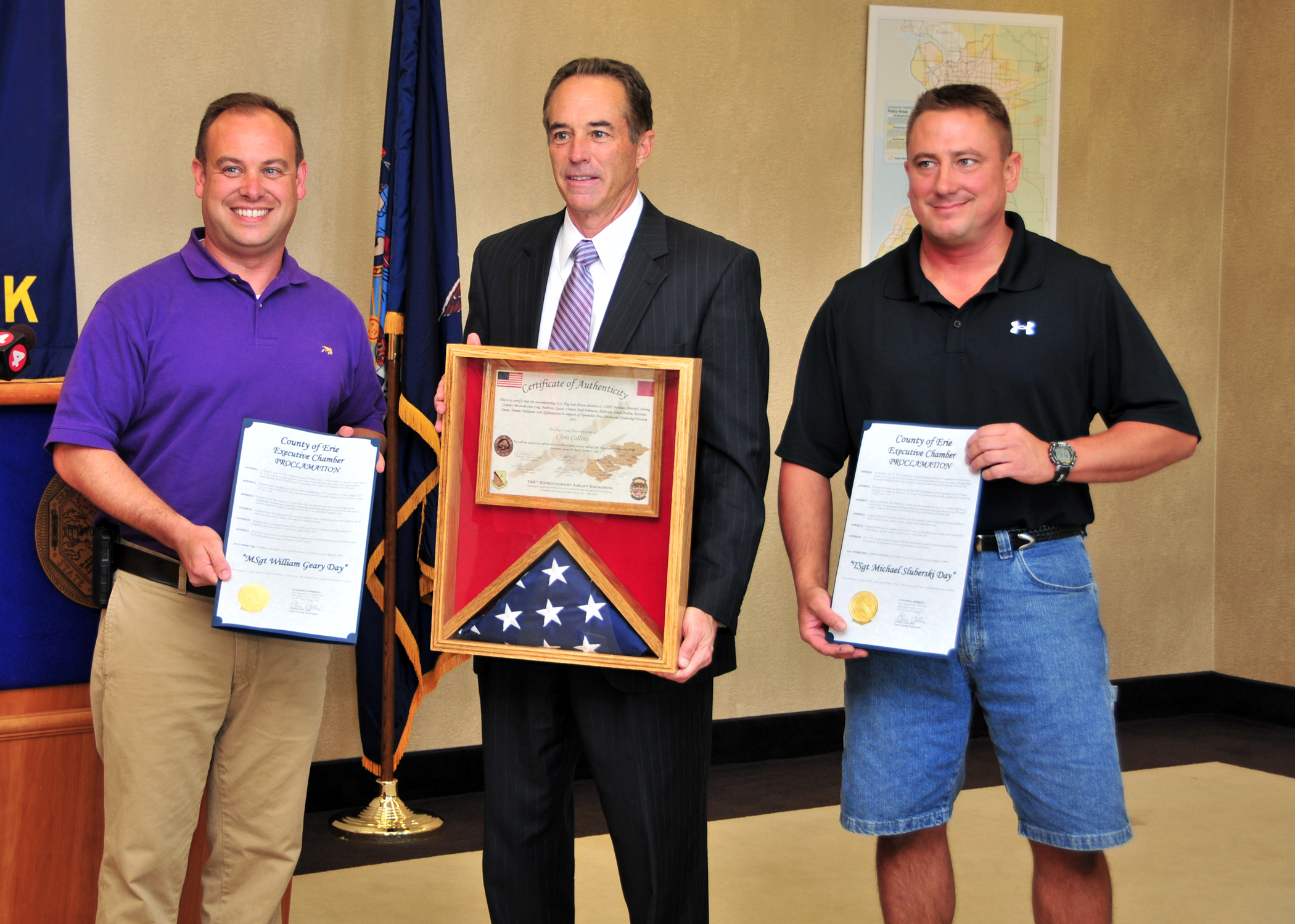 Master Sgt. Bill Geary (left) and Tech. Sgt. Mike Sluberski, of the 328th Airlift Squadron present Erie County Executive Chris Collins (center) folded flags that flew in combat over southwest Asia June 27, 2011 Buffalo, NY. The flags were presented at the Edward Rath Building as thanks for their employers' support during the Sergeants' deployment. (U.S. Air Force photo by Staff Sgt. Joseph McKee)